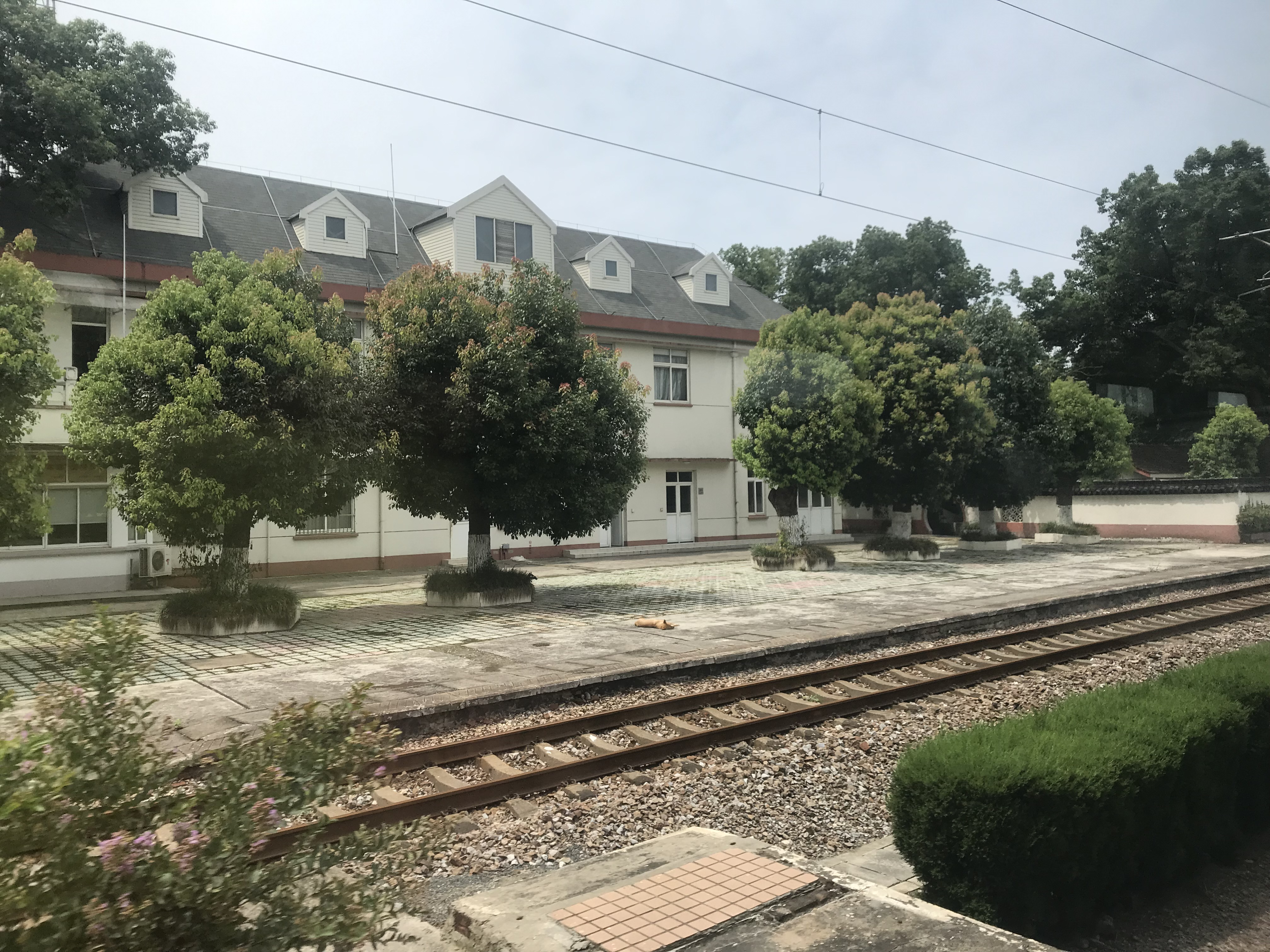 201907 Station Building of Waikuatang